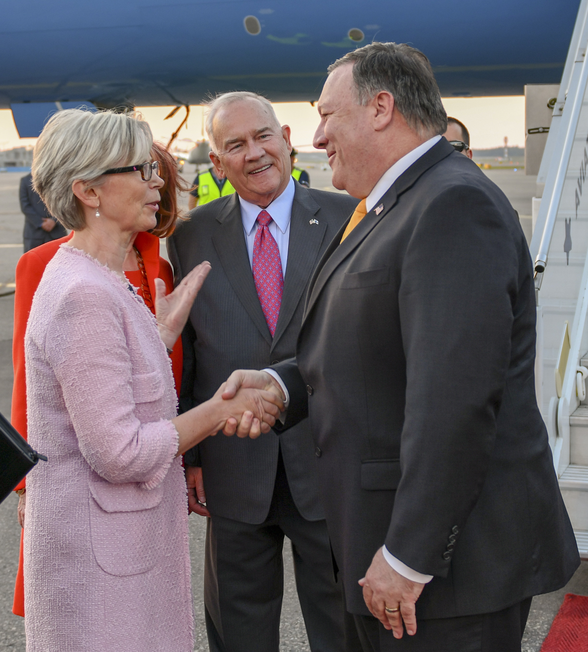 U.S. Secretary of State Michael R. Pompeo is greeted by Finnish Ambassador to the United States Kirsti Kauppi in Helsinki, Finland on July 15, 2018. [State Department photo/ Public Domain]